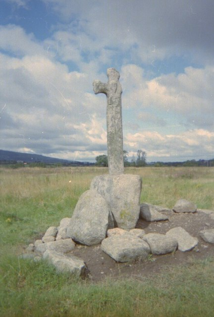 Tully Celtic Cross (2) This second Celtic Cross is in much need of restoration. The eastern edge of the Dublin Mountains can be seen in the distance.